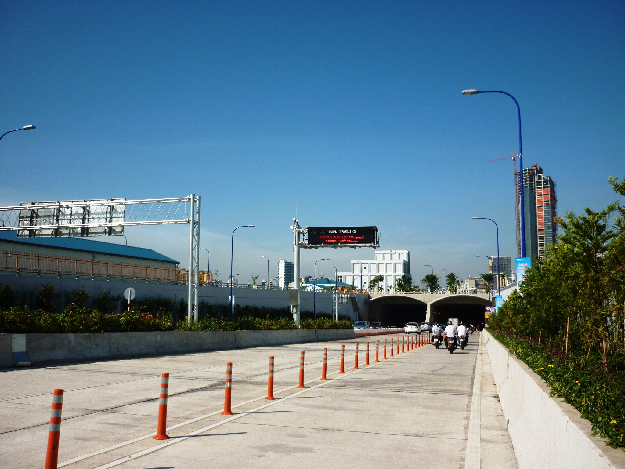 The entrance of Thu Thiem Tunnel in District 2